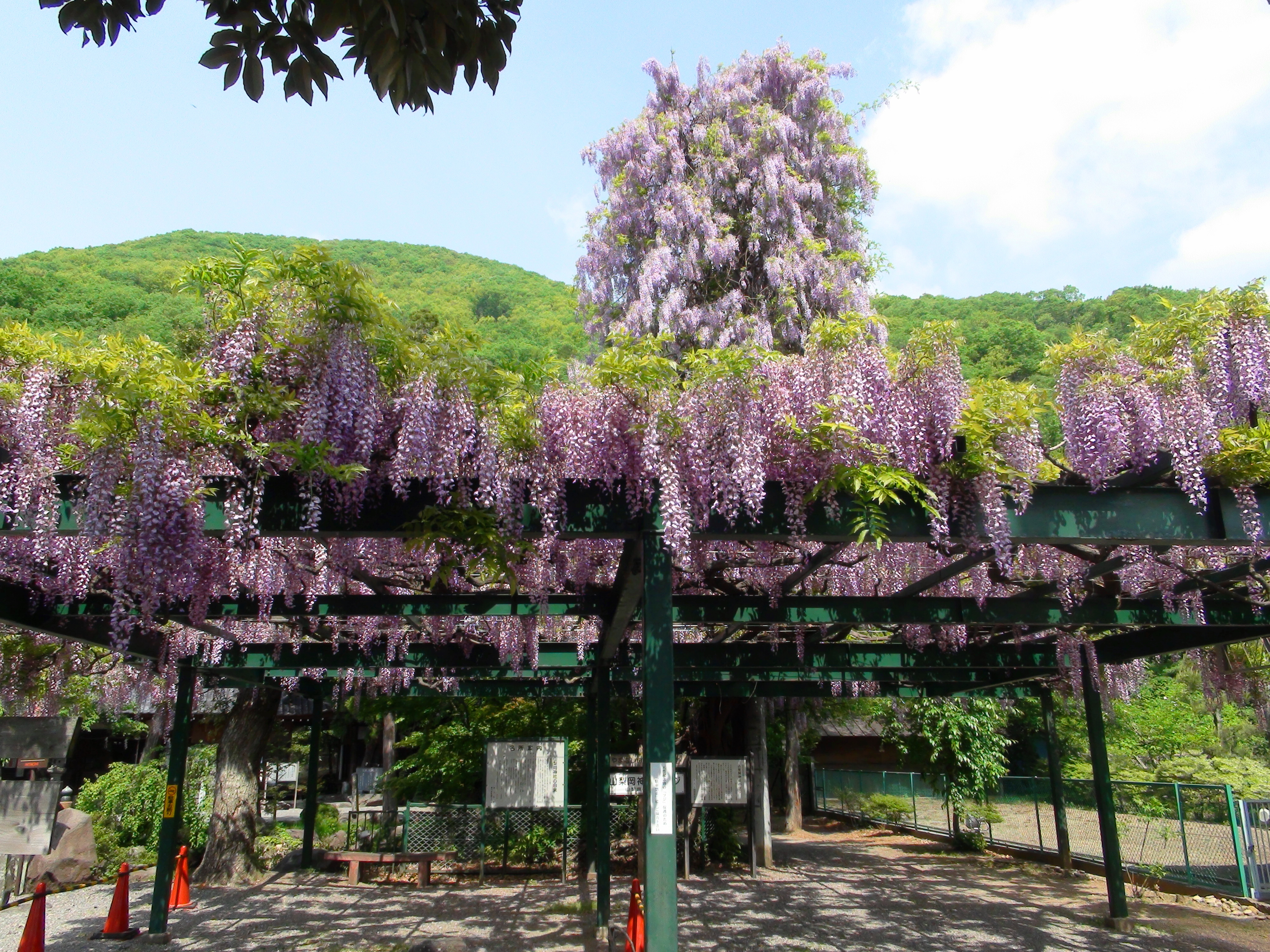 Yamanashi-oka shrine Wisteria